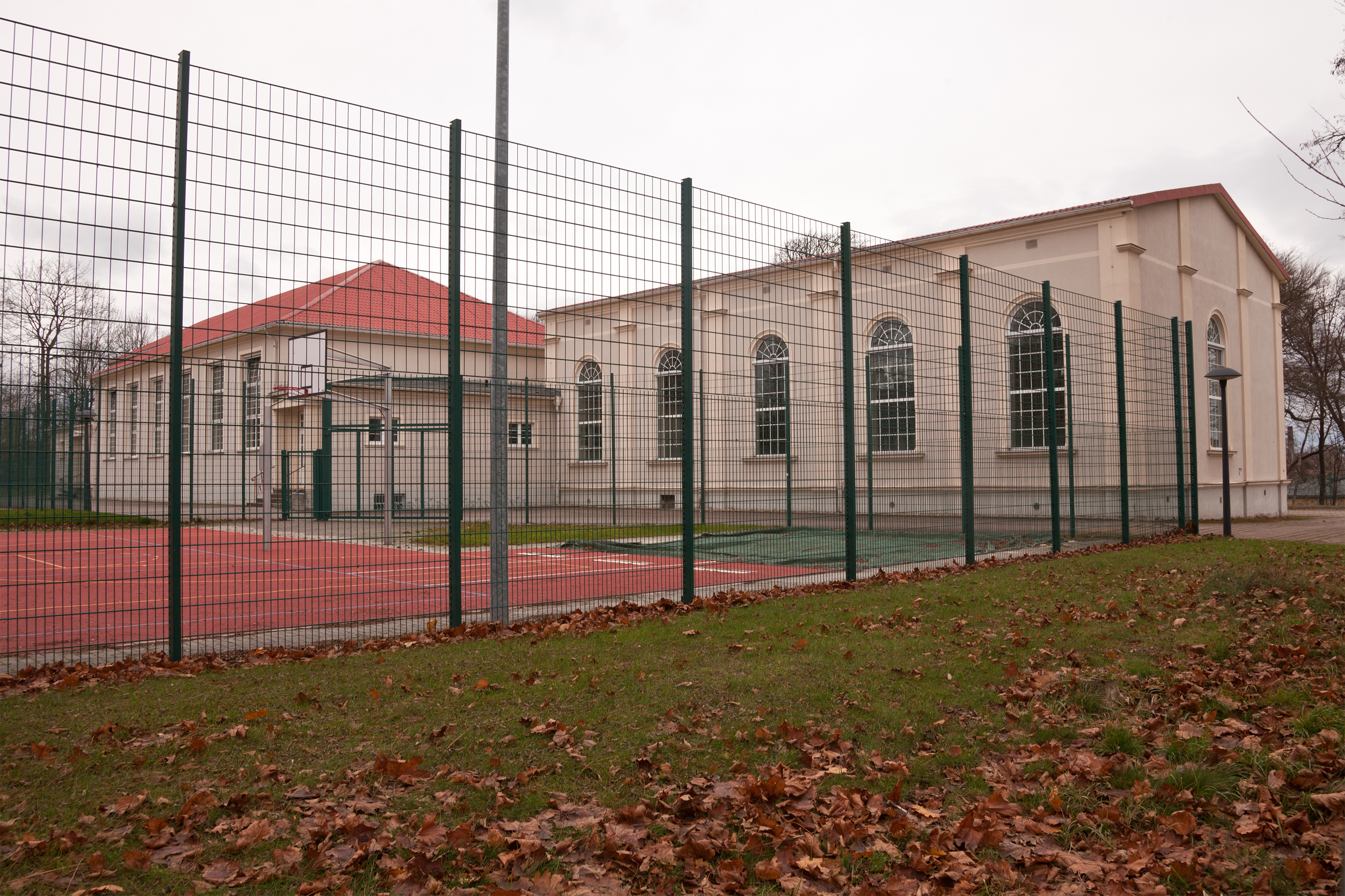 Löbau, Saxony, gym belonging to the "Geschwister-Scholl-Gymnasium"